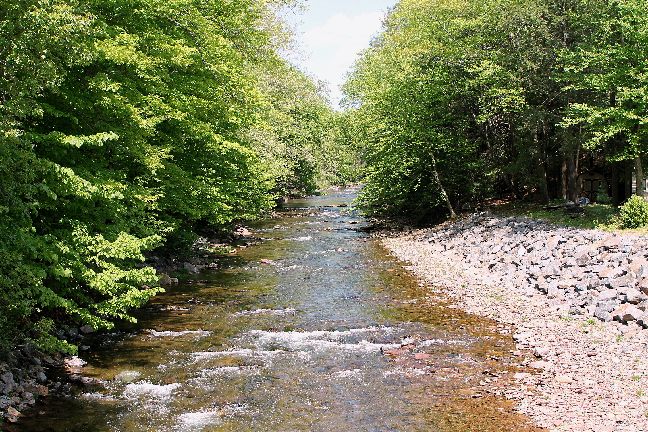 Fishing Creek only a few hundred feet from its source in Sugarloaf Township, Columbia County, Pennsylvania